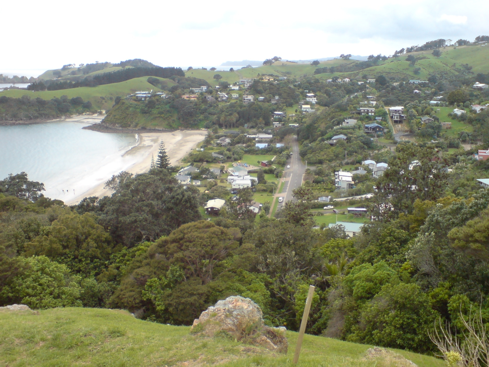 Palm Beach 'suburb' on Waiheke Island, technically part of Auckland City, New Zealand, though the locals consider themselves a bit different from general cityfolks in Auckland.